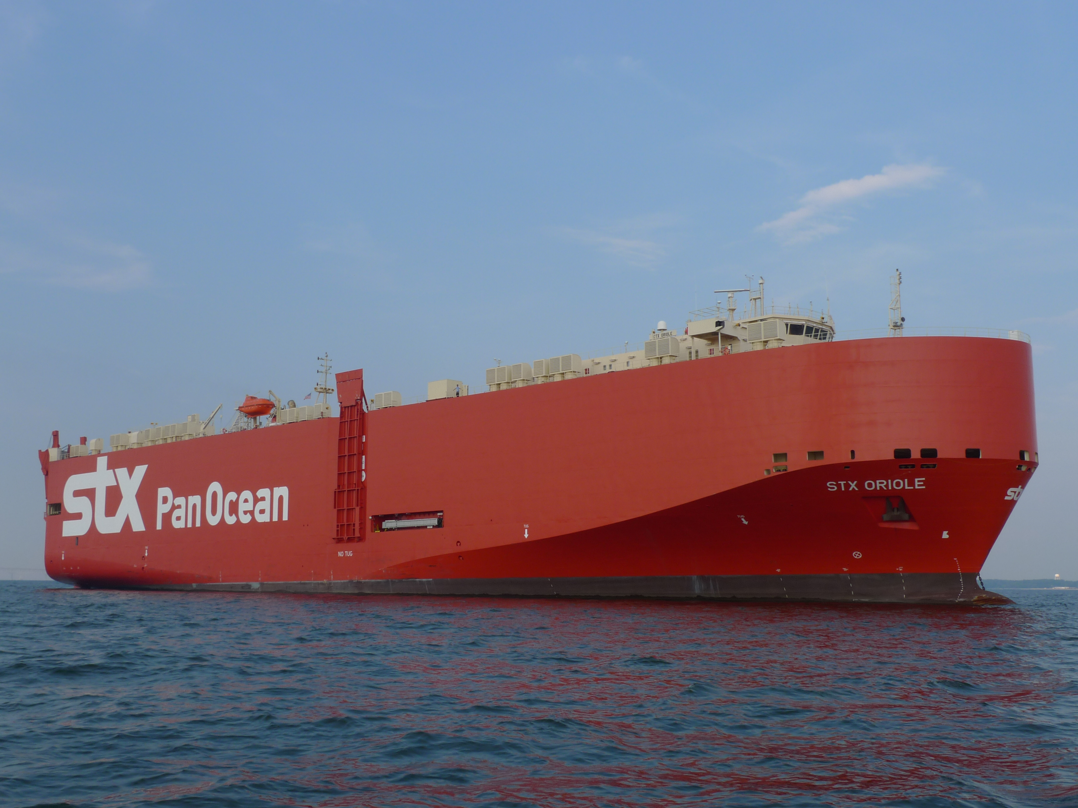 STX Oriole.